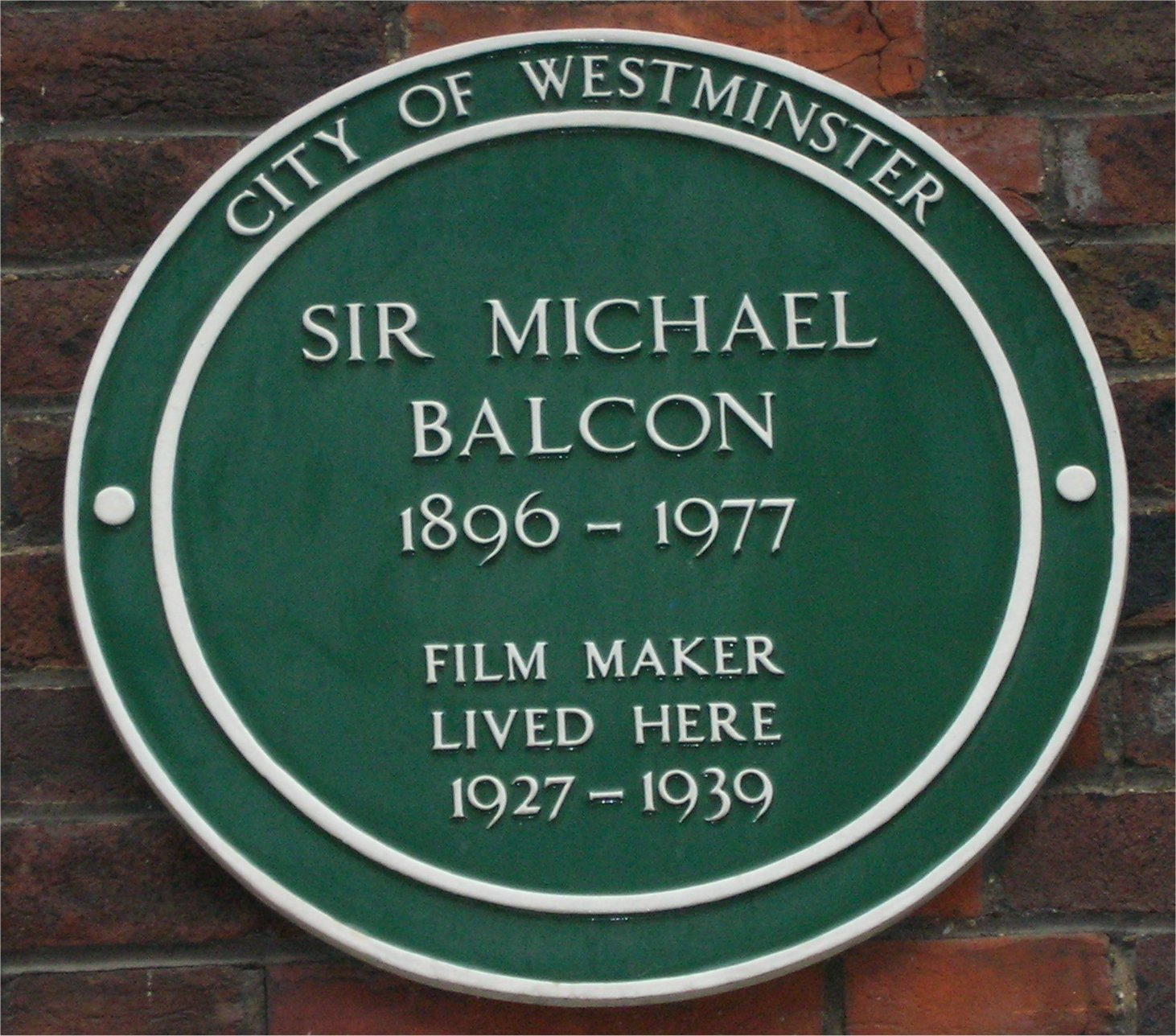 Green plaque on Michael Balcon's house in Tufton Street, Westminster, London. Photographed by me 24 February 2007. Oosoom